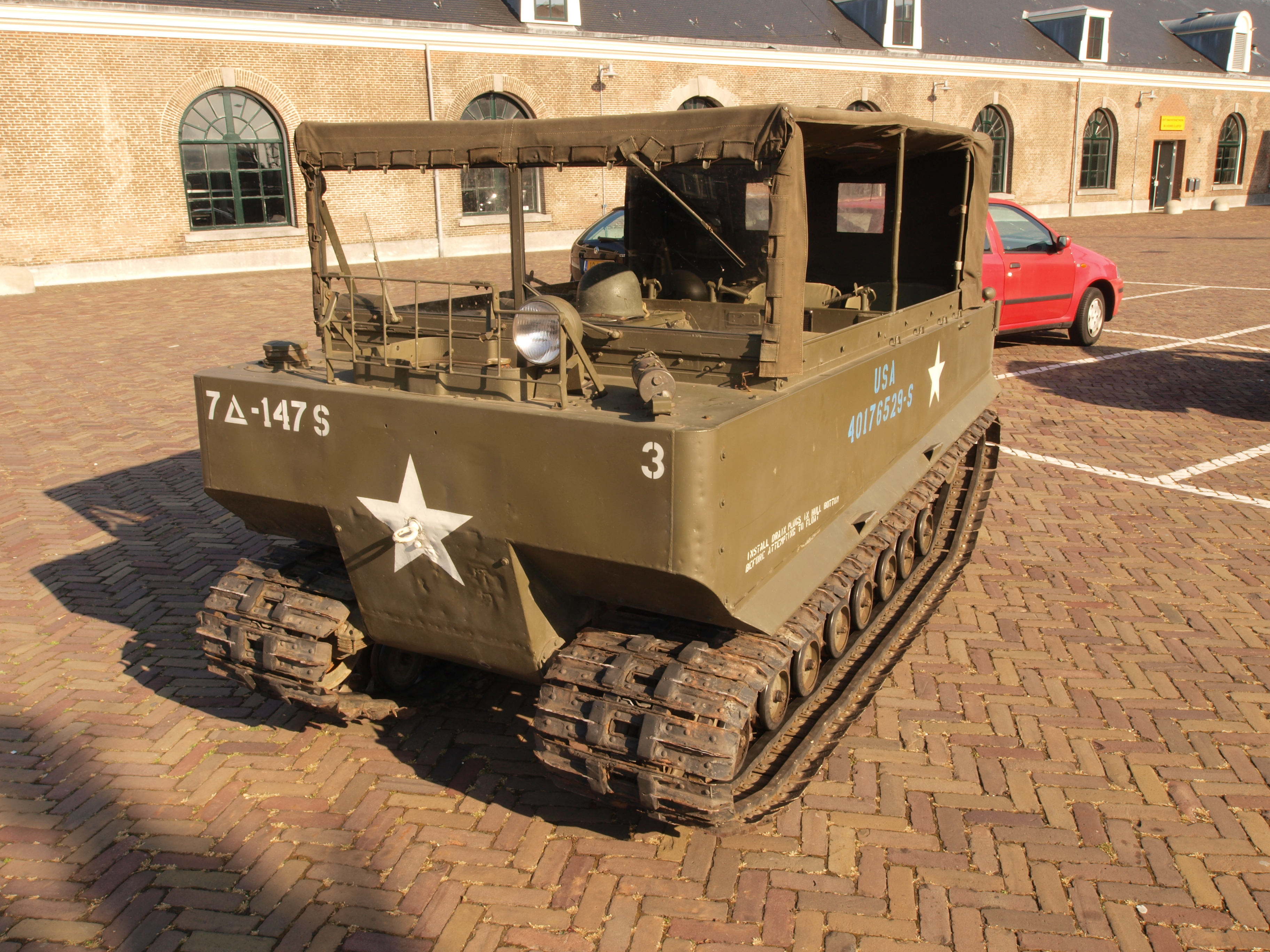 Photographed at Den Helder, The Netherlands. OLYMPUS DIGITAL CAMERA